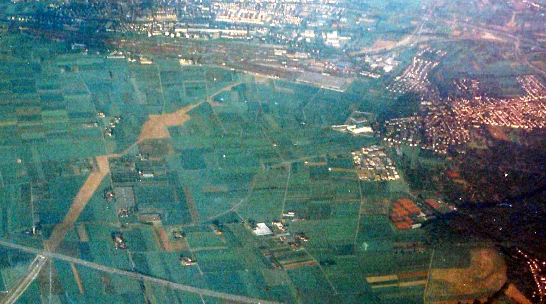 Langes Feld tunnel of the Mannheim–Stuttgart high-speed railway, aerial picture of 1990. Most sections were built using the cut-and-cover technique, the opening was in 1991. On top, Kornwestheim classification yard.